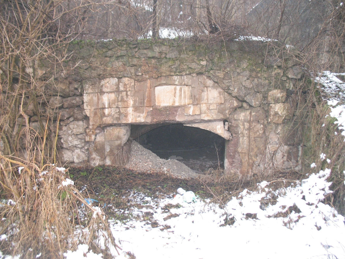 Former mining tunnel in Jelašnica in Niška Banja municipality,Serbia.